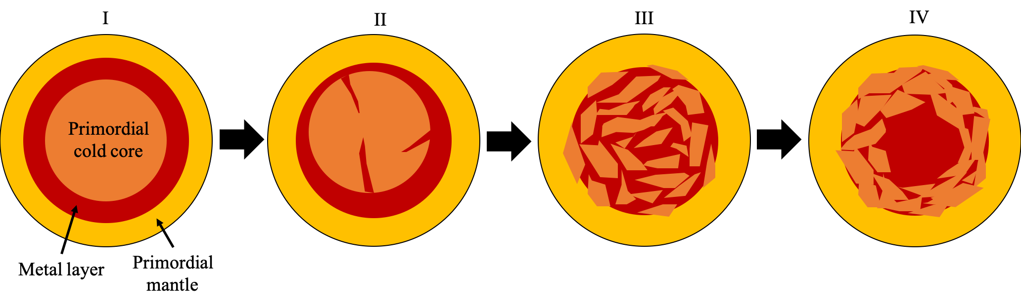 Safronov's model for core and mantle differentiation: I. Melted iron layer beween protomantle and primordial core. II. Primordial core cracking. III. Primordial core fragments. IV. Rockbergs ascend and iron forms new core.